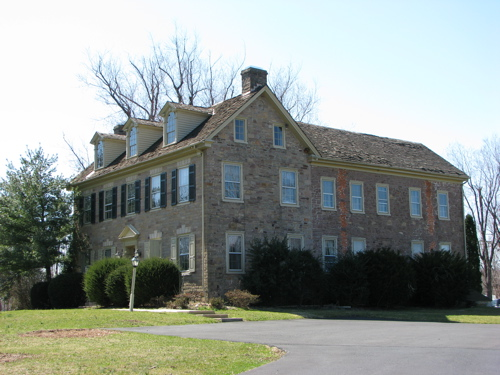 Photo of the Nathaniel Irwin House in Warrington, Bucks County, Pennsylvania